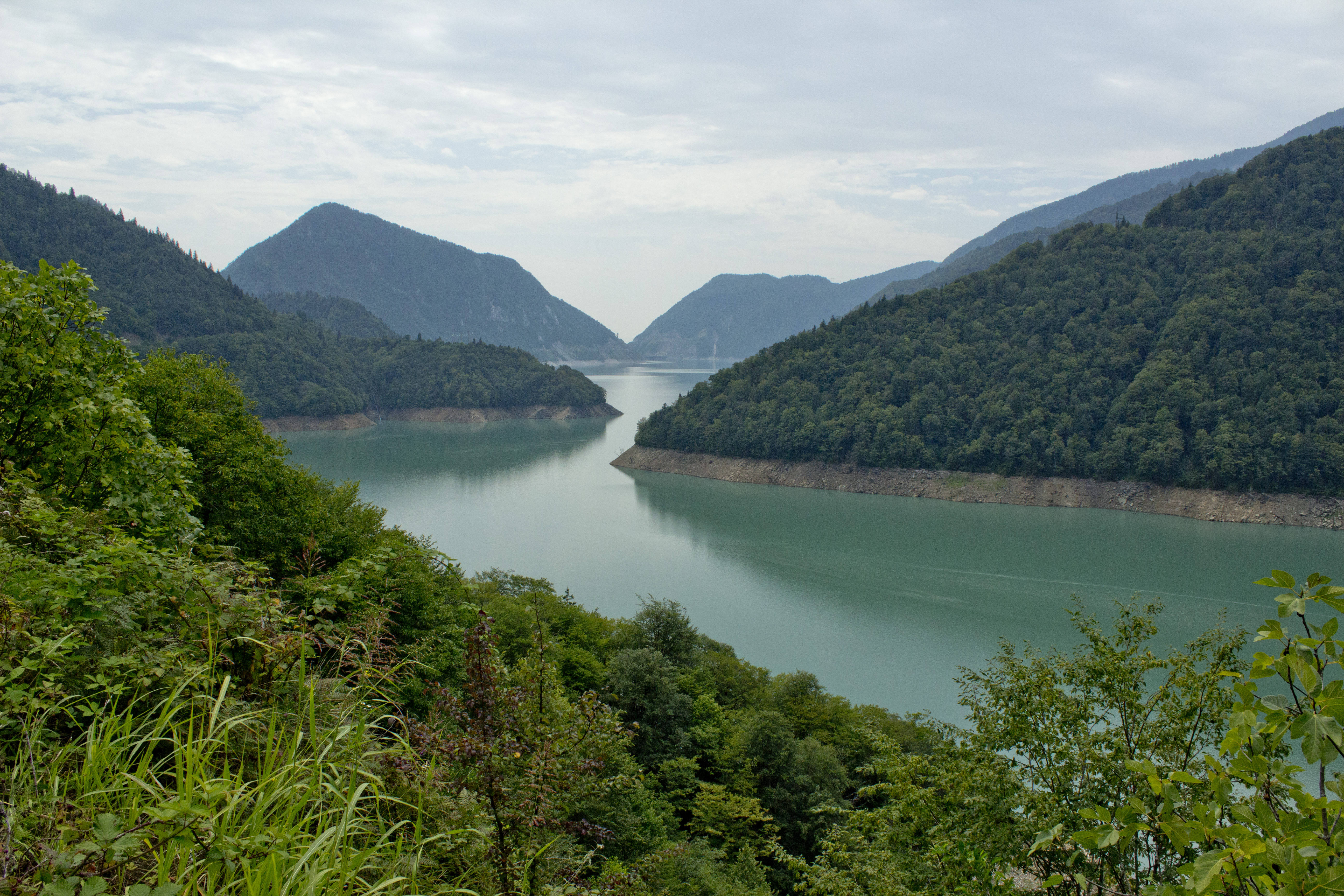 The lake just behind the Inguri dam between Georgia and breakaway region Abchazia